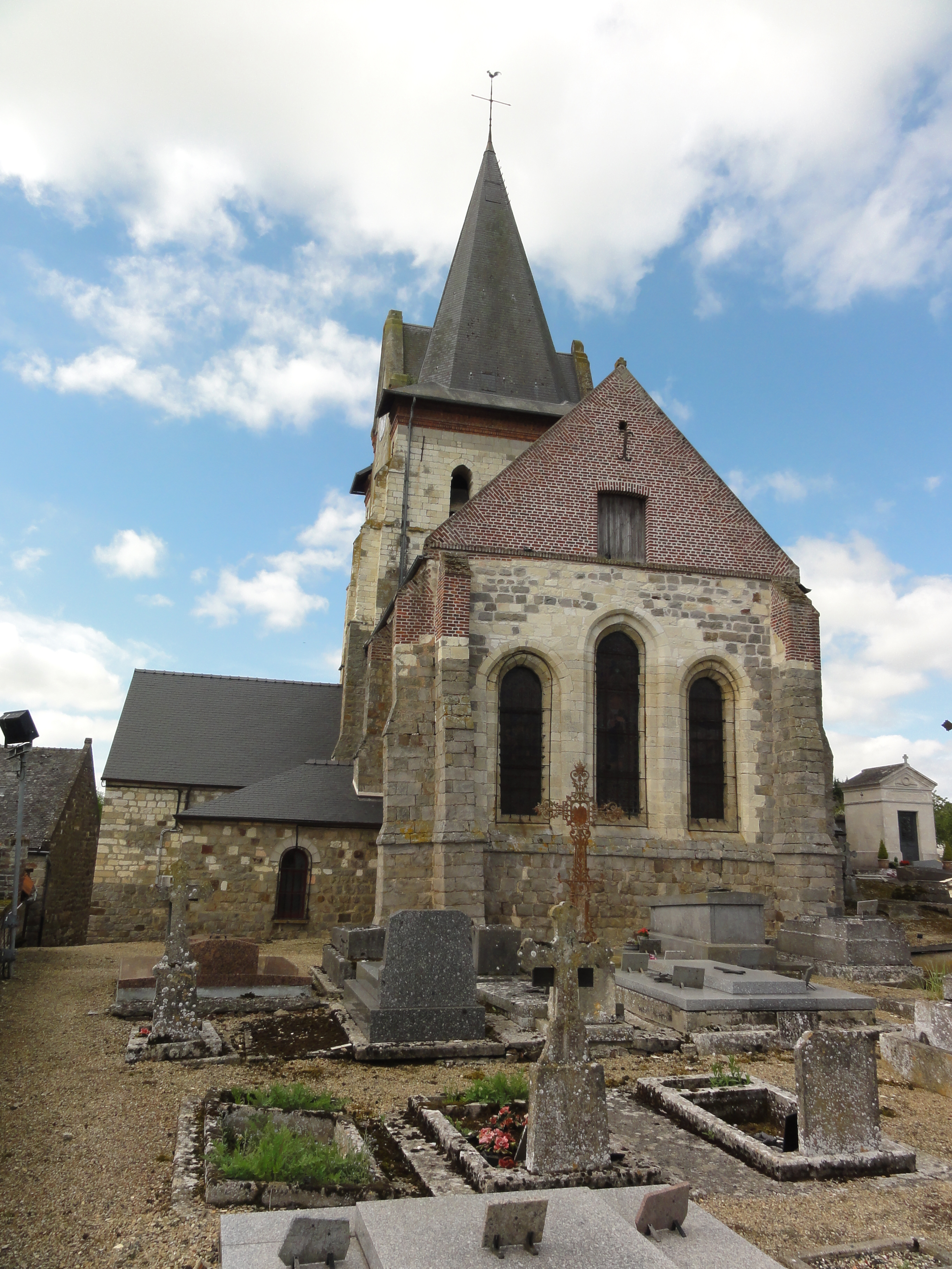 Dercy (Aisne) église